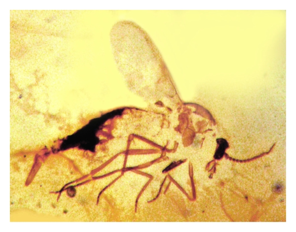 The Early Cretaceous Burmese amber biting midge, Leptoconops nosopheris, a vector of the trypanosomatid, Paleotrypanosoma burmanicus.